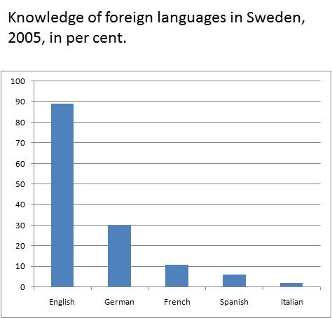 Knowledge of foreign languages in Sweden, in per cent, as of 2005. Data taken from an EU survey.